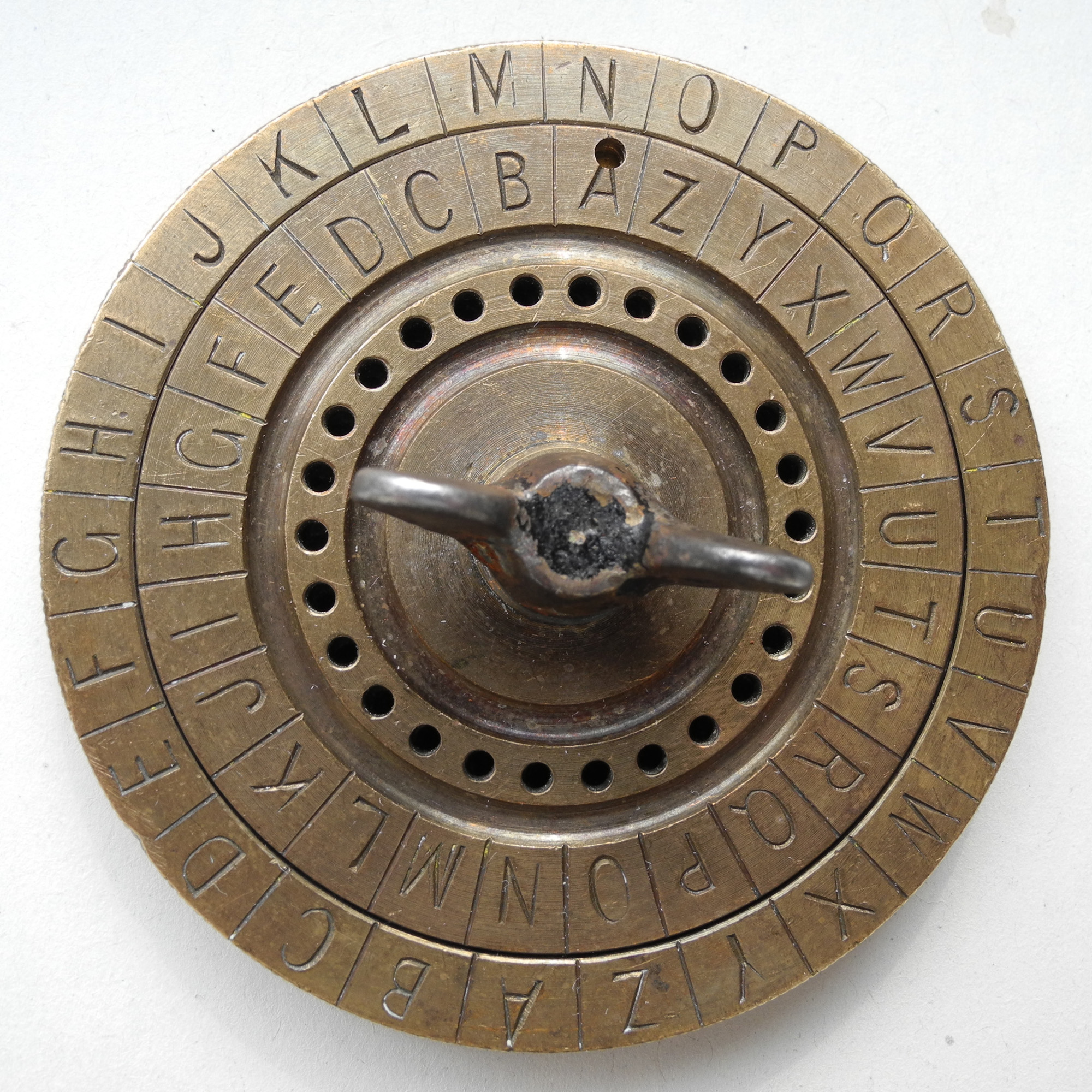 Cipher disc for substitution cipher, manufacturer: Linge, Pleidelsheim (Germany)